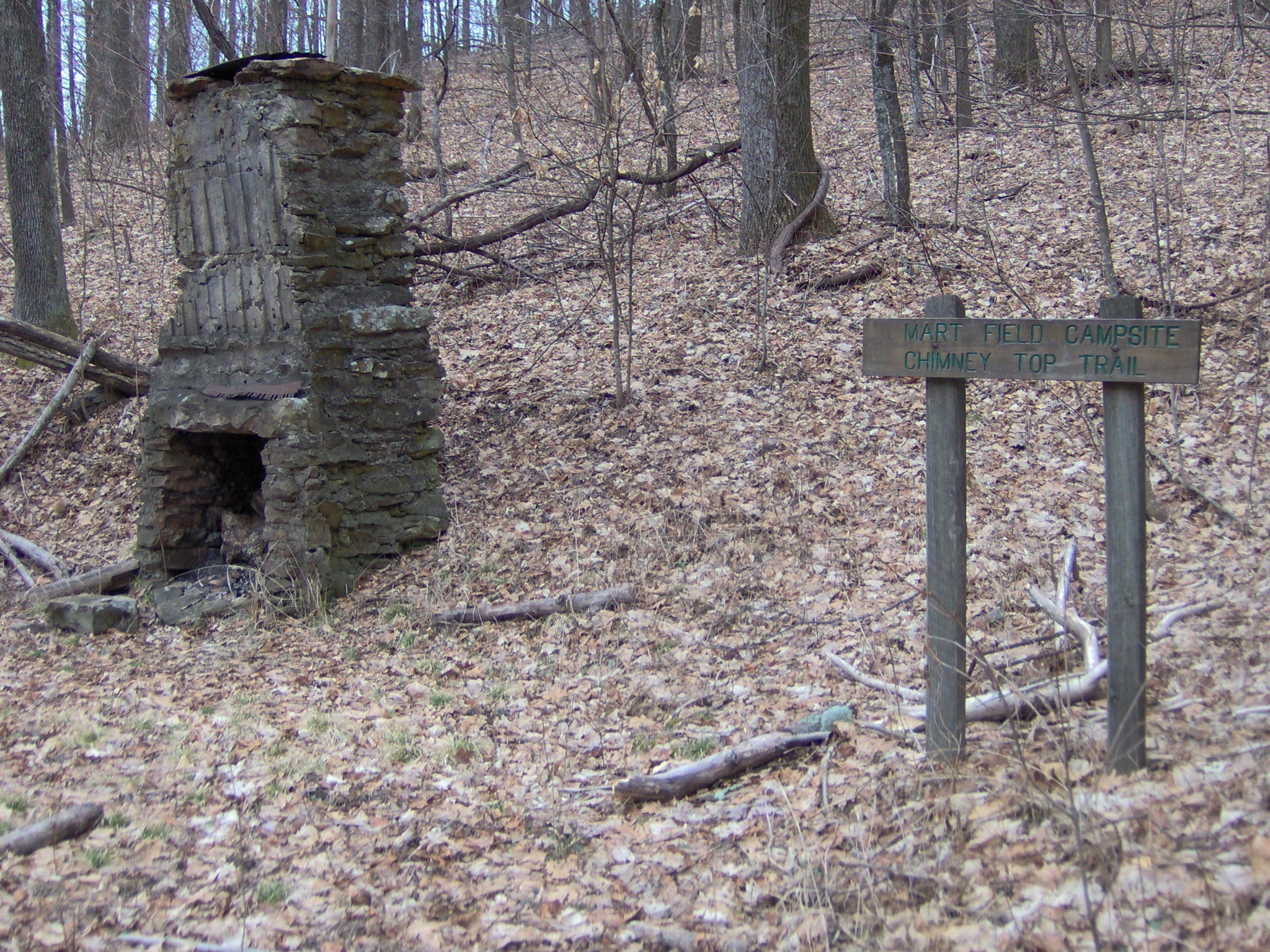 The backcountry campsite at Mart Fields at Frozen Head State Park in the Cumberland Mountains of Tennessee, USA. This campsite is located along the Chimney Tops Trail, between Chimney Top Mountain and Frozen Head. Its elevation is just over 3,000 feet.